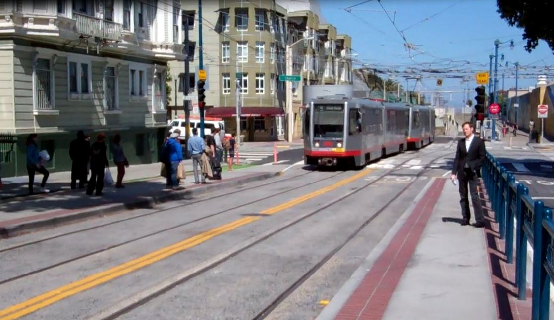 An outbound N Judah train arrives at Duboce and Church in September 2012